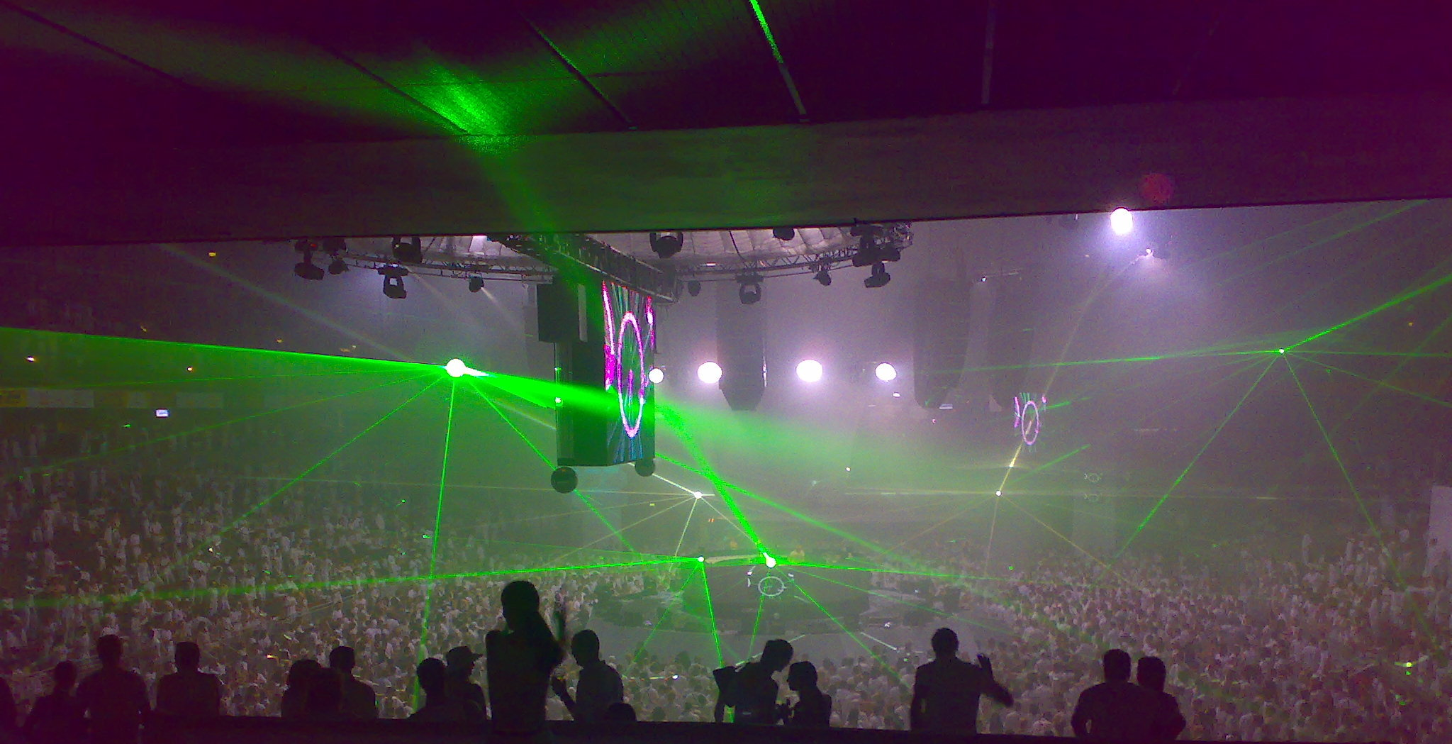 Trance festival Sensation White